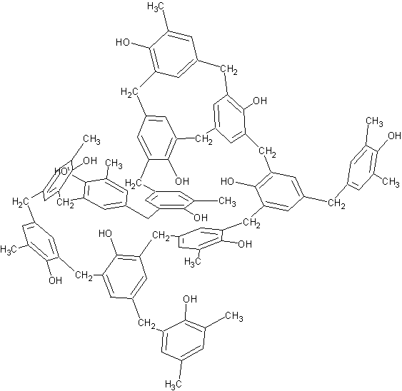 part of the 3-dimensional structure of bakelite